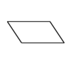 Geometrisk figur: Parallellogram Gjord av Användare:Anp. PD; se Användare:Habj/Upphovsrätt inklusive diskussionsidan This image of simple geometry is ineligible for copyright and therefore in the public domain, because it consists entirely of information that is common property and contains no original authorship.